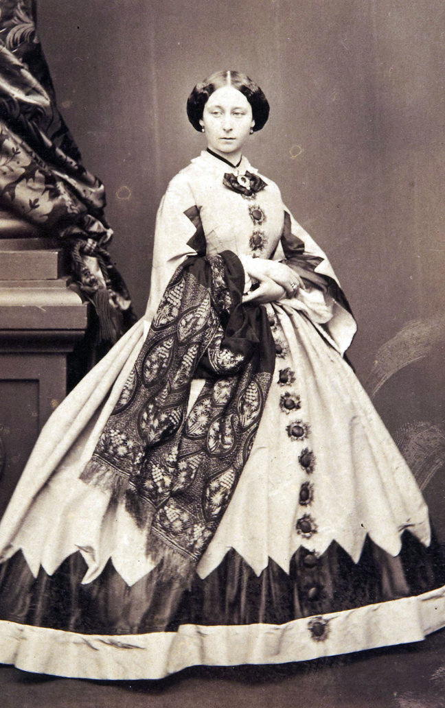 Princess Alice